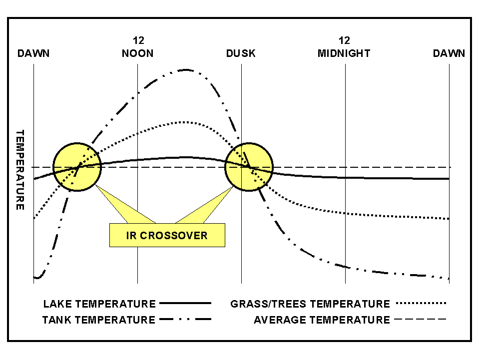 Infrared Crossover showing temperature curves of tanks, water, gras/trees in 24 hours